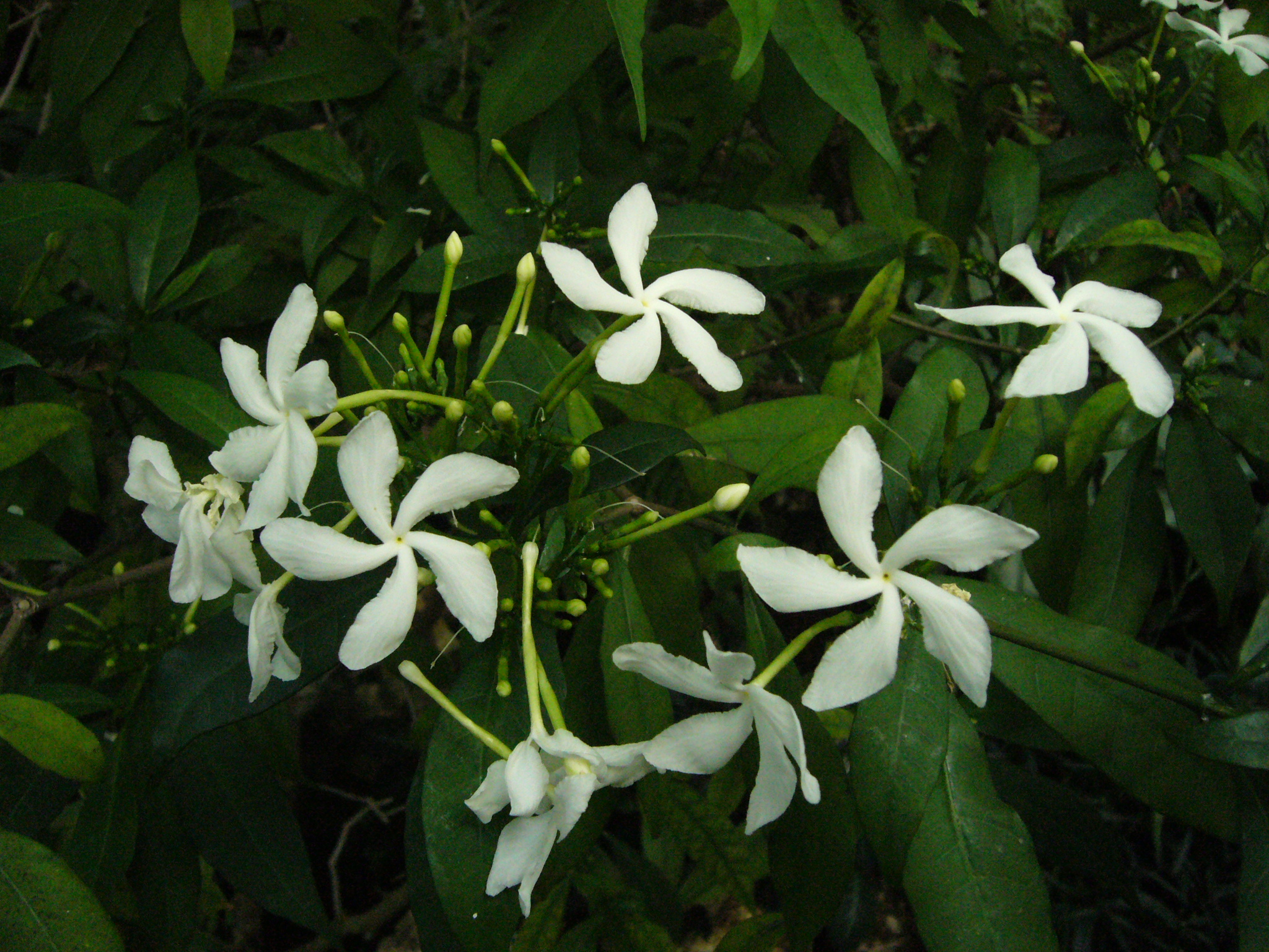 Tabernaemontana corymbosa (picture taken in the botanical garden of Lyon).